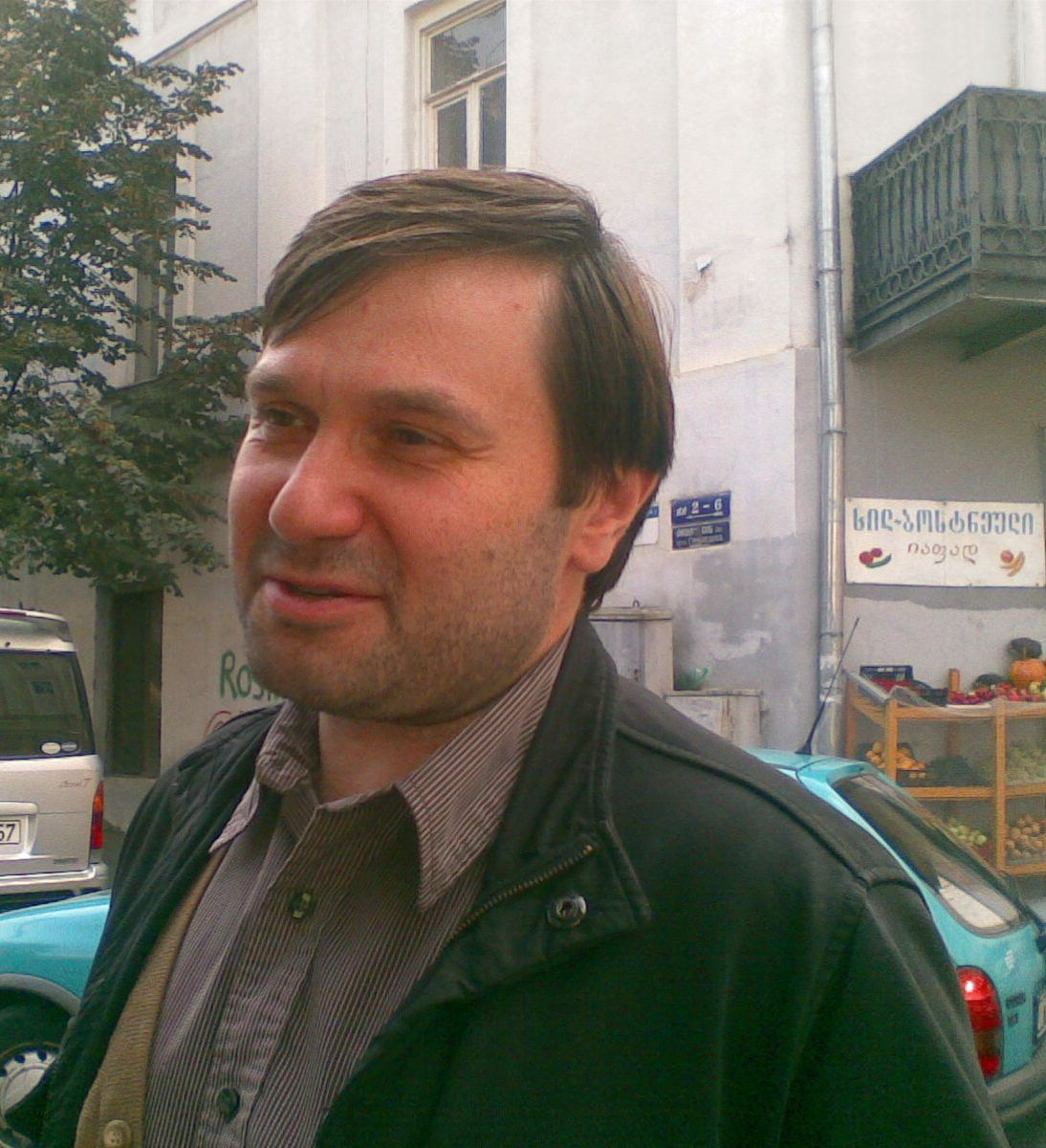 Alexander Korsantia (born 1965, Tbilisi) is a Georgian pianist. Tbilisi.